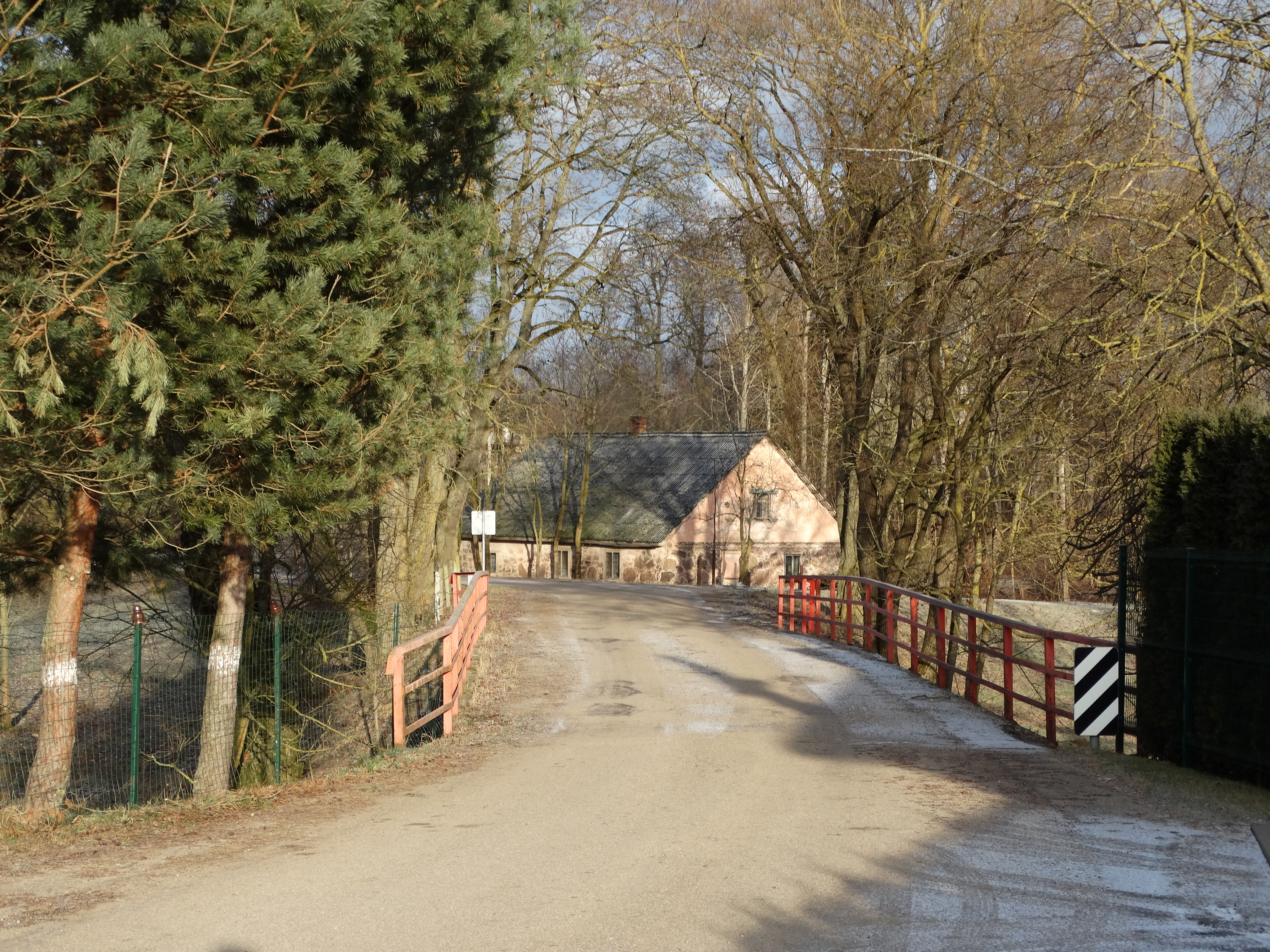 Bridge on Upytė River, Rodai II, Panevėžys district, Lithuania